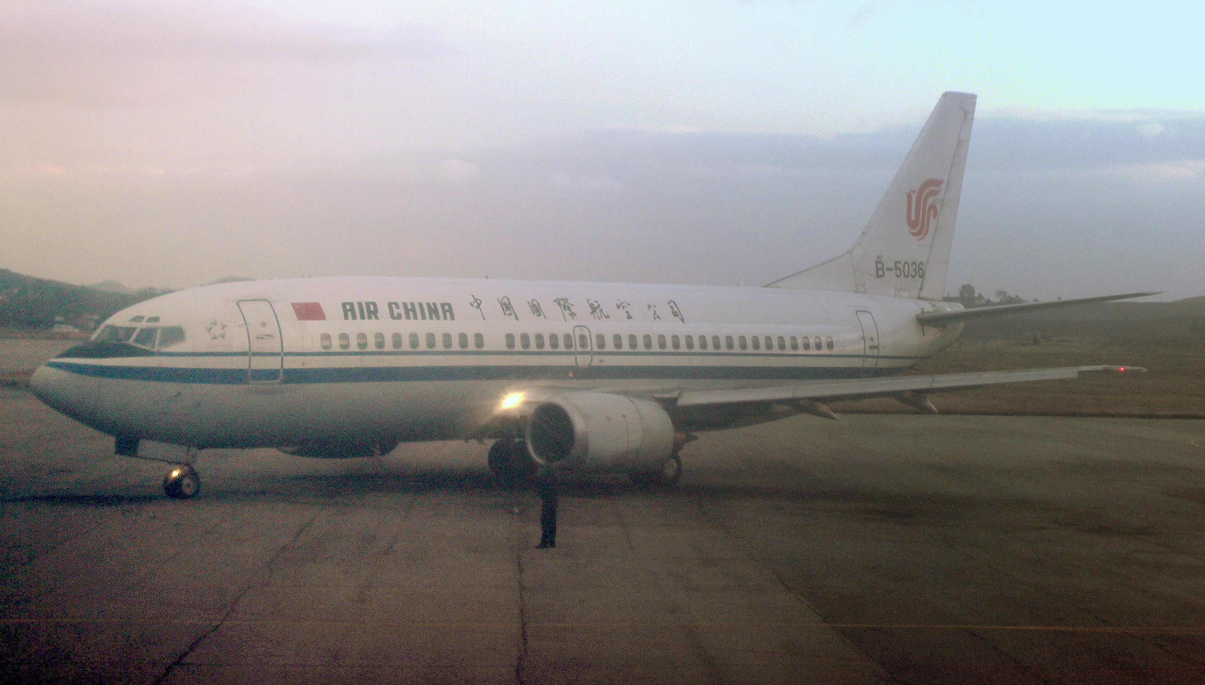 An Air China Boeing 737-300 registered B-5036 taxiing at Sunan International Airport, Pyongyang, North Korea